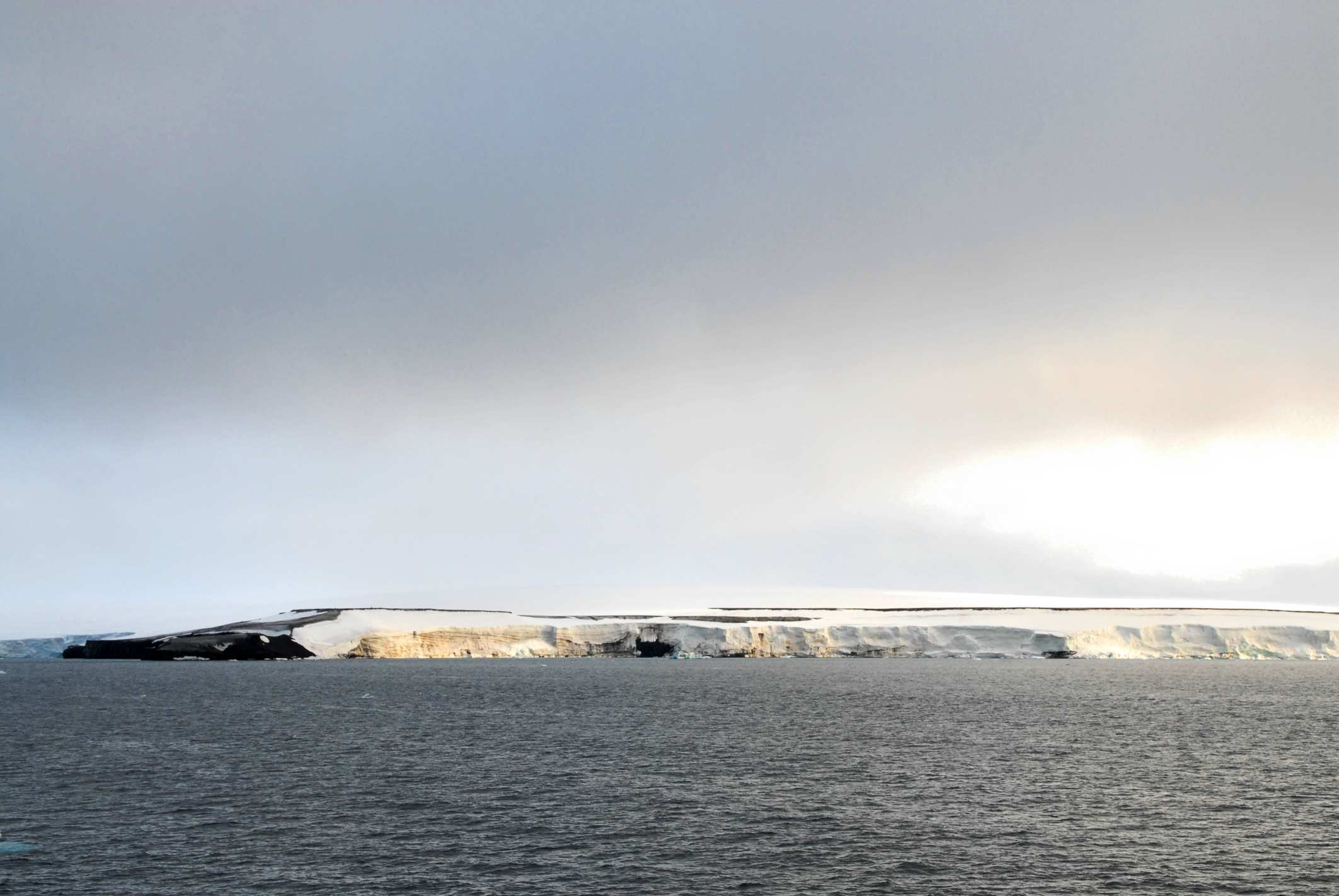 Cape Fligely (Northern tip of Rudolf Island, Franz Josef Archipelago, Russia; 81°50‘35’’N, 59°14‘22’’E)